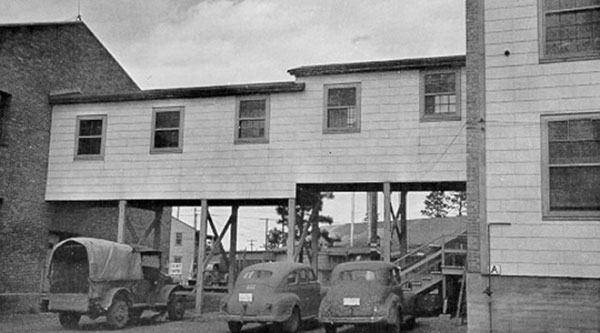 Passage between buildings A and B, Tech Area, Los Alamos